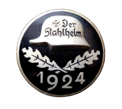 Stahlhelm, Bund der Frontsoldaten 1924. (The Steel Helmet, League of Frontline Soldiers), Membership badge of 1924